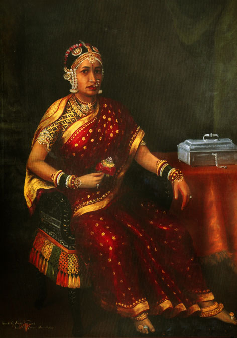 Portrait of HH Subbamma Bai Sahib Rani of Pudukottai